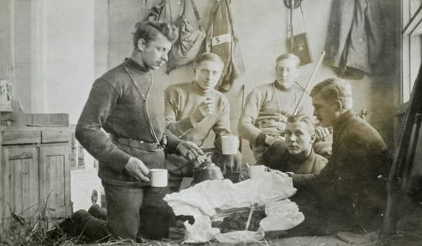 Members of the Ikaalinen White Guard during the 1918 Finnish Civil War Battle of Ikaalinen.